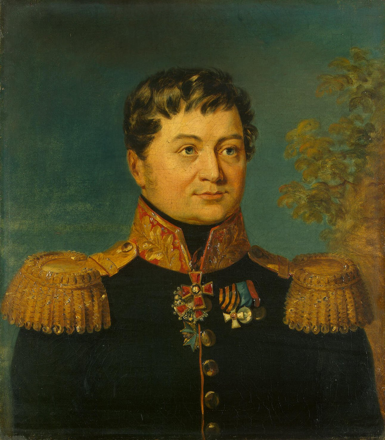 Andrey Petrovich Turchaninov 2-nd (1779 – 1830) russian general